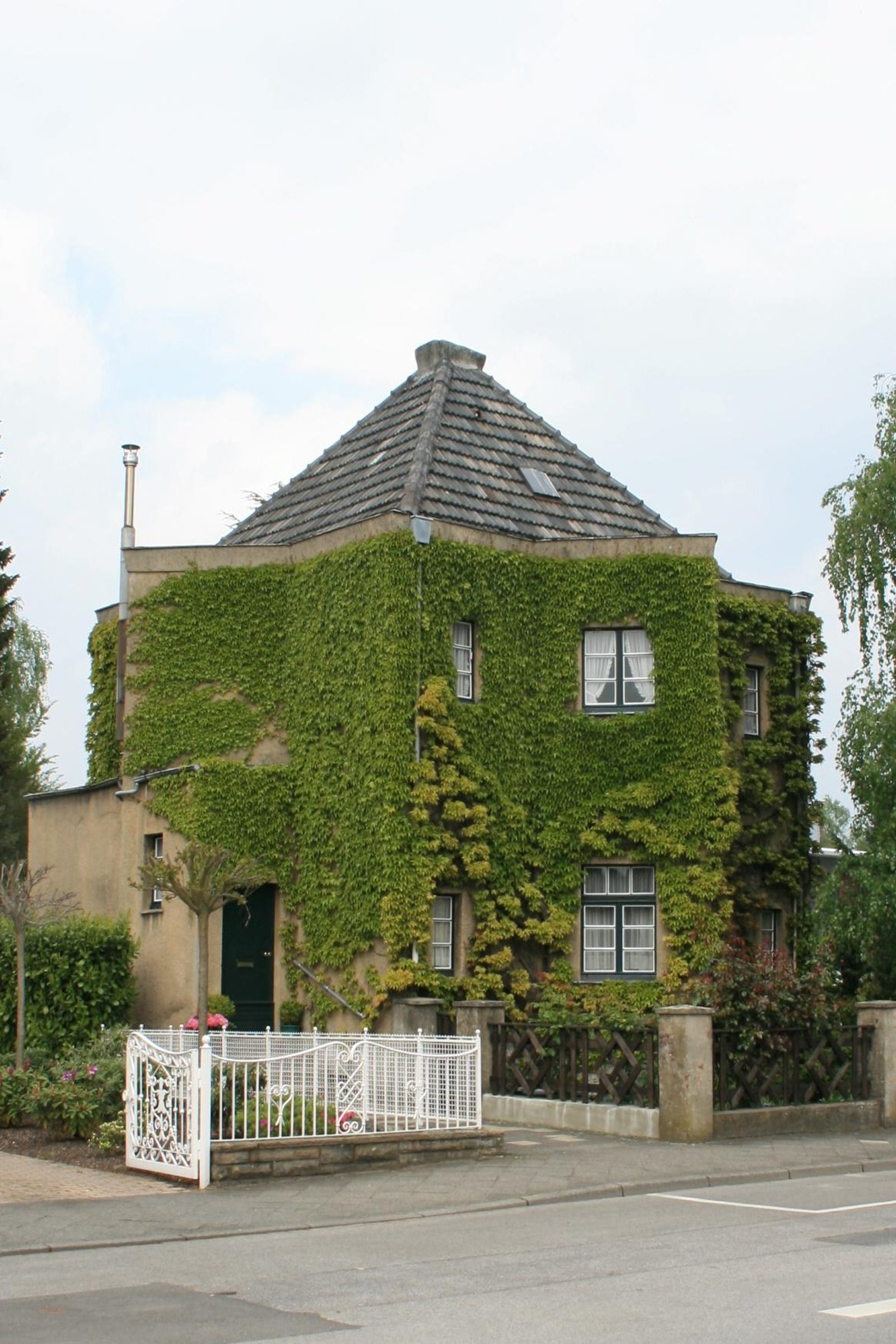 Cultural heritage monument No. G 051 in Mönchengladbach